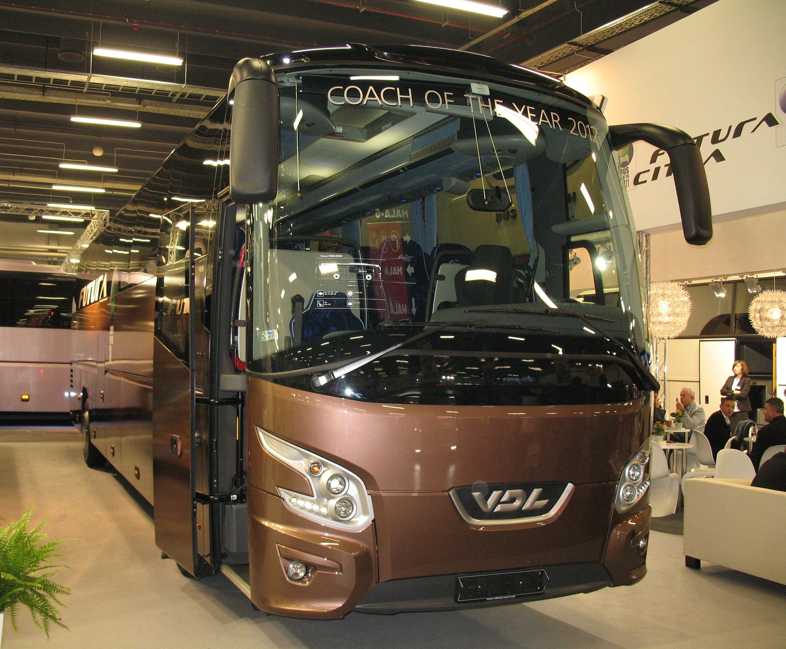 VDL Futura FHD2 129.410 coach (reg. WPI HP92) in Kielce, Poland. Built 2011, Kompan from Gdynia operator. Transexpo 2011.